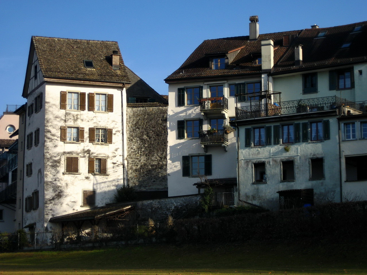 Rapperswil (Switzerland) : and western town walls as seen from the so-called Giessi area.